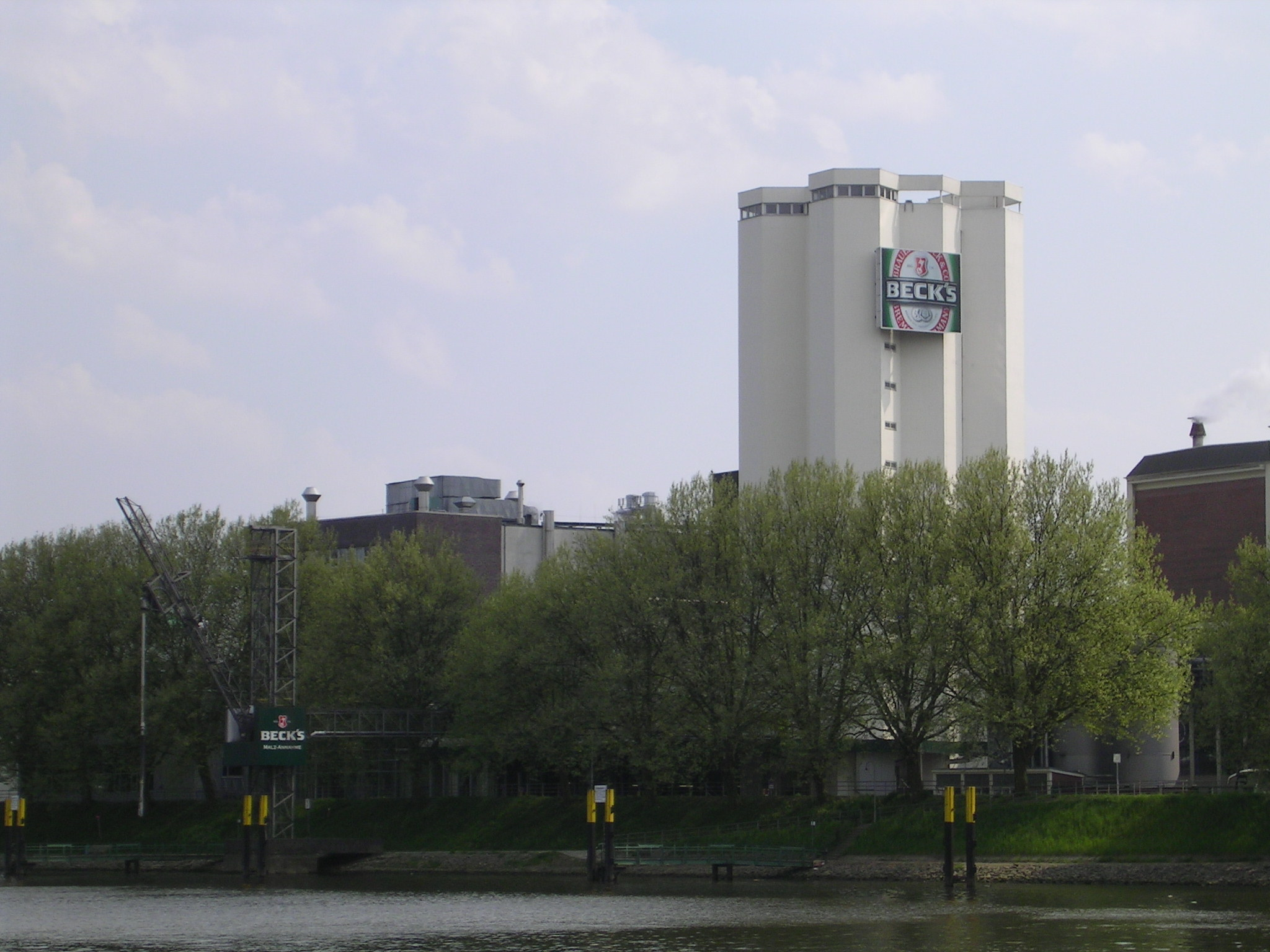 Weser River in Bremen city